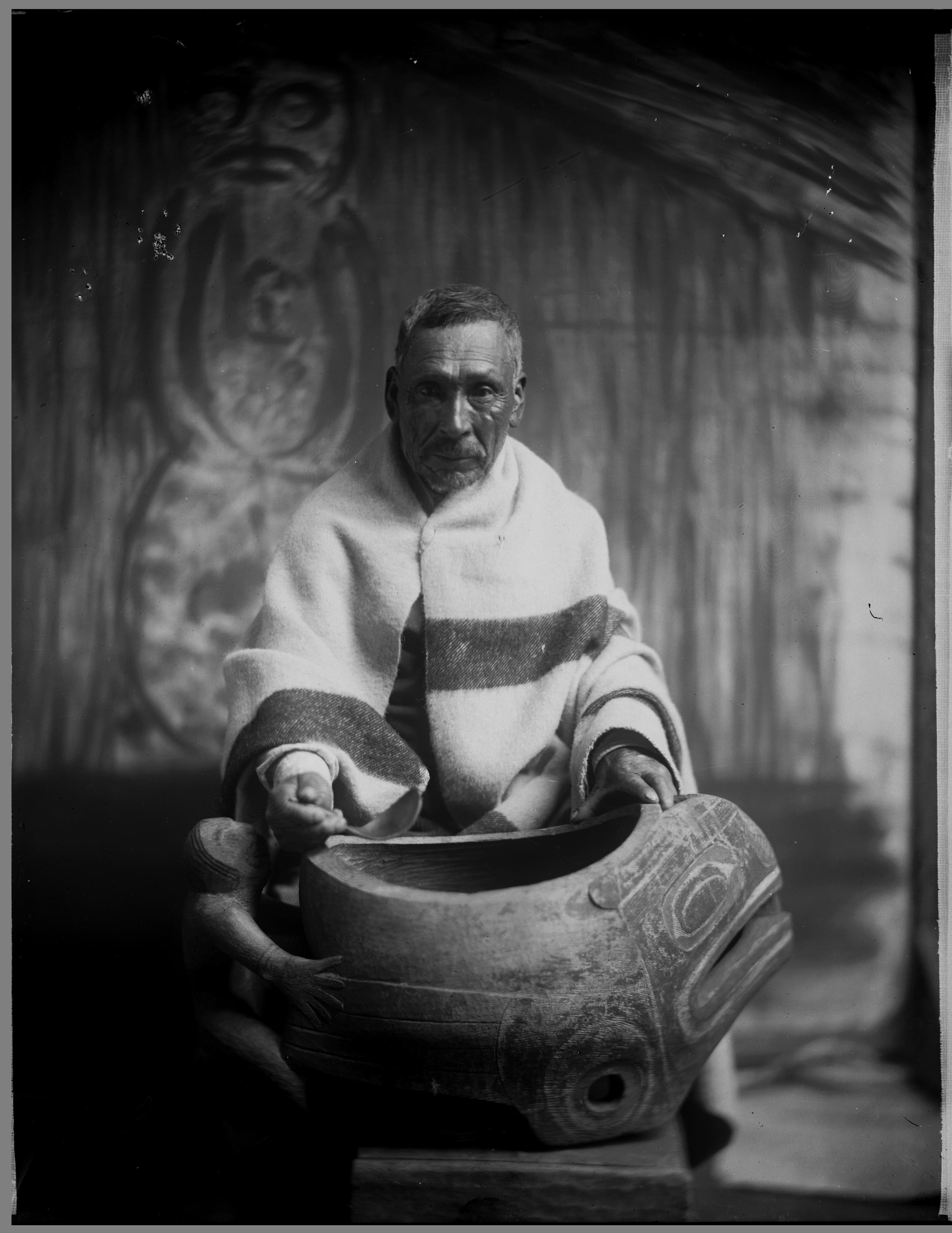 Elderly Quatsino man with carved ceremonial bowl VPL Accession Number: 14057 Date: 19-- Photographer/Studio: Leeson, Ben W. Content: Caption: 'The Feast Dish' Topic: Indian wood-carving Indian art Portrait Indian art Blankets - Northwest Coast of North America Location: British Columbia - Quatsino Sound More information on our historical photograph collection